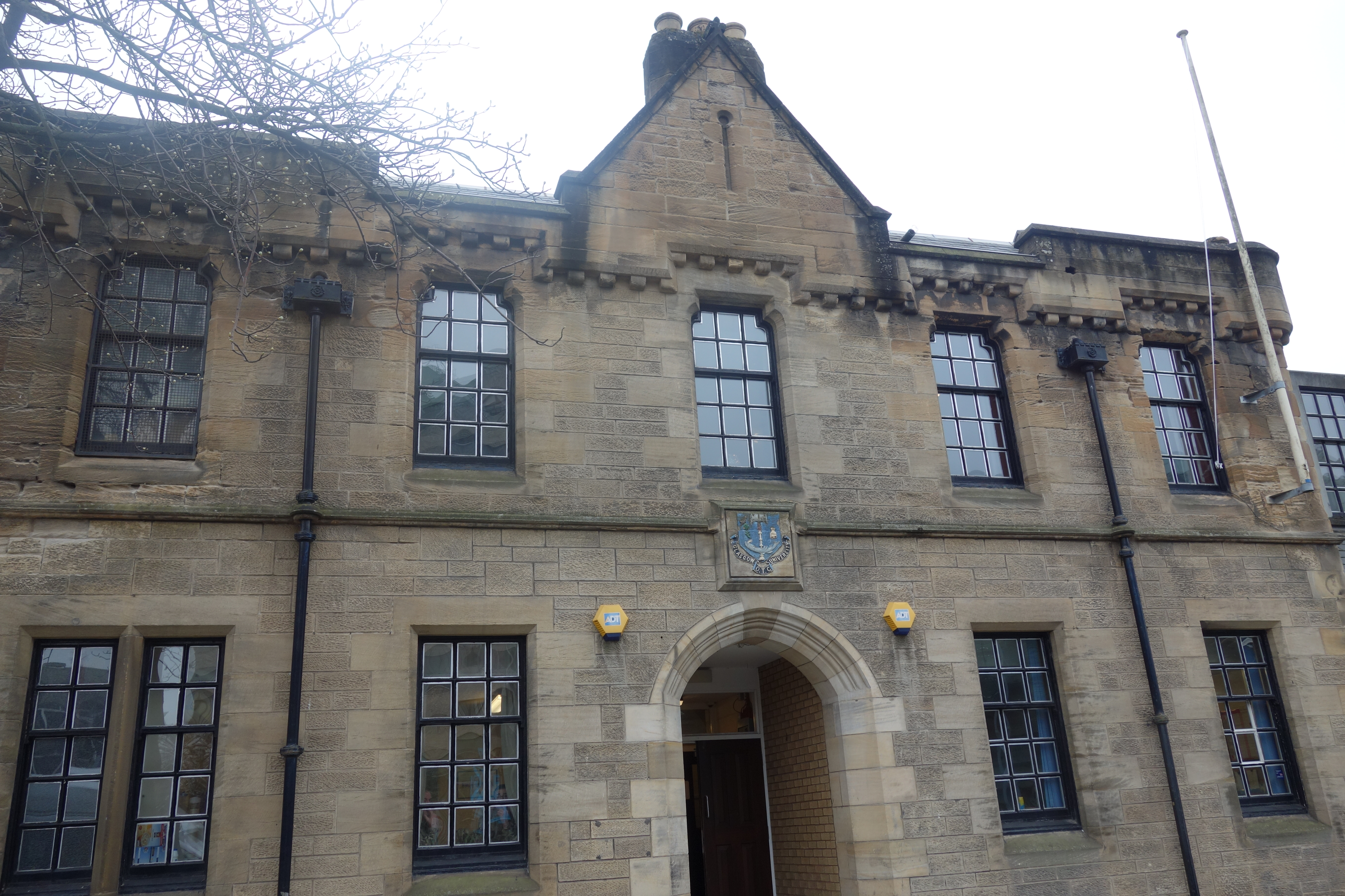 Glasgow University, OTC Building 2017. (Officer Traning Centre)